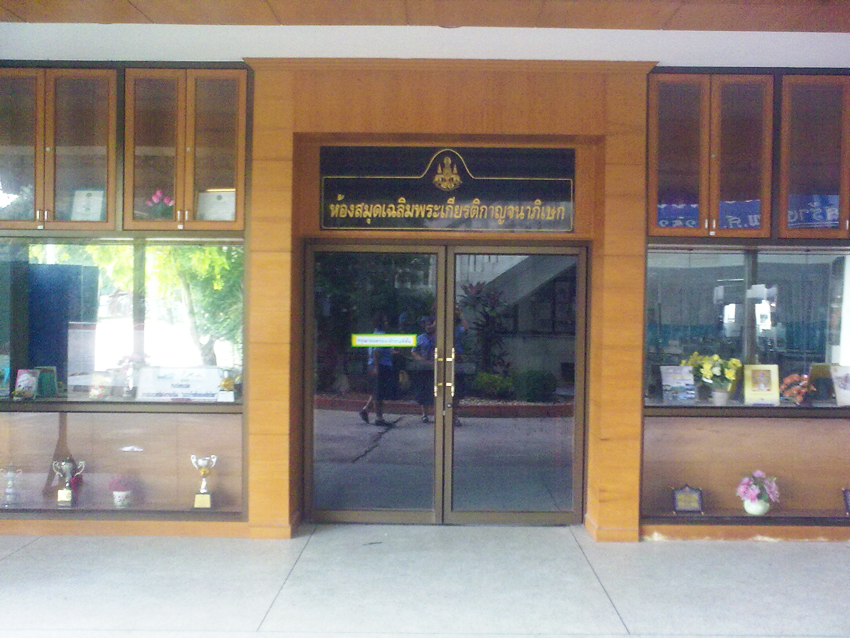 Library Of Satri Thungsong School in occasion of His Majesty The King ceremony to the throne